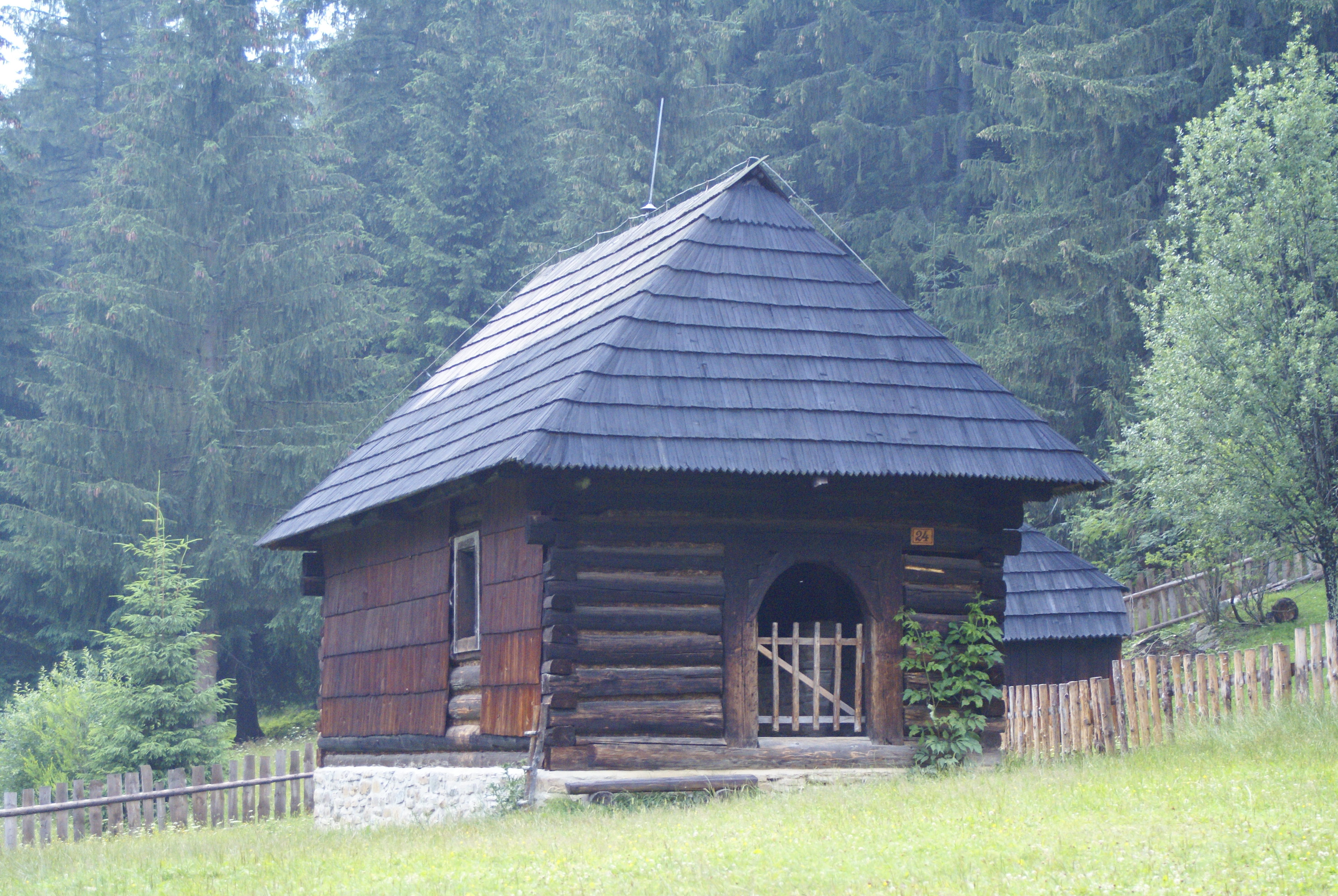 Open air museum of typical slovakian old Orava village, Zuberec, West Tatras, Slovak Republic